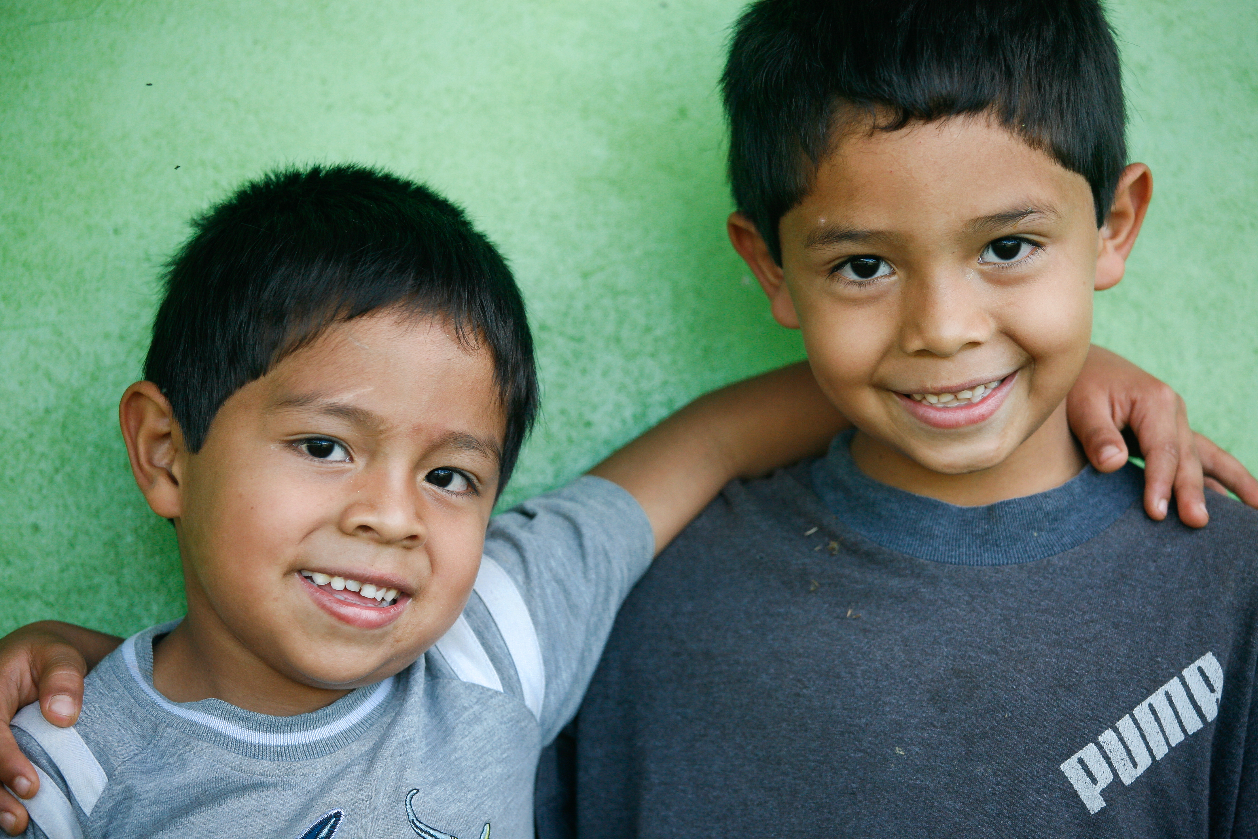 Panamanian Brothers